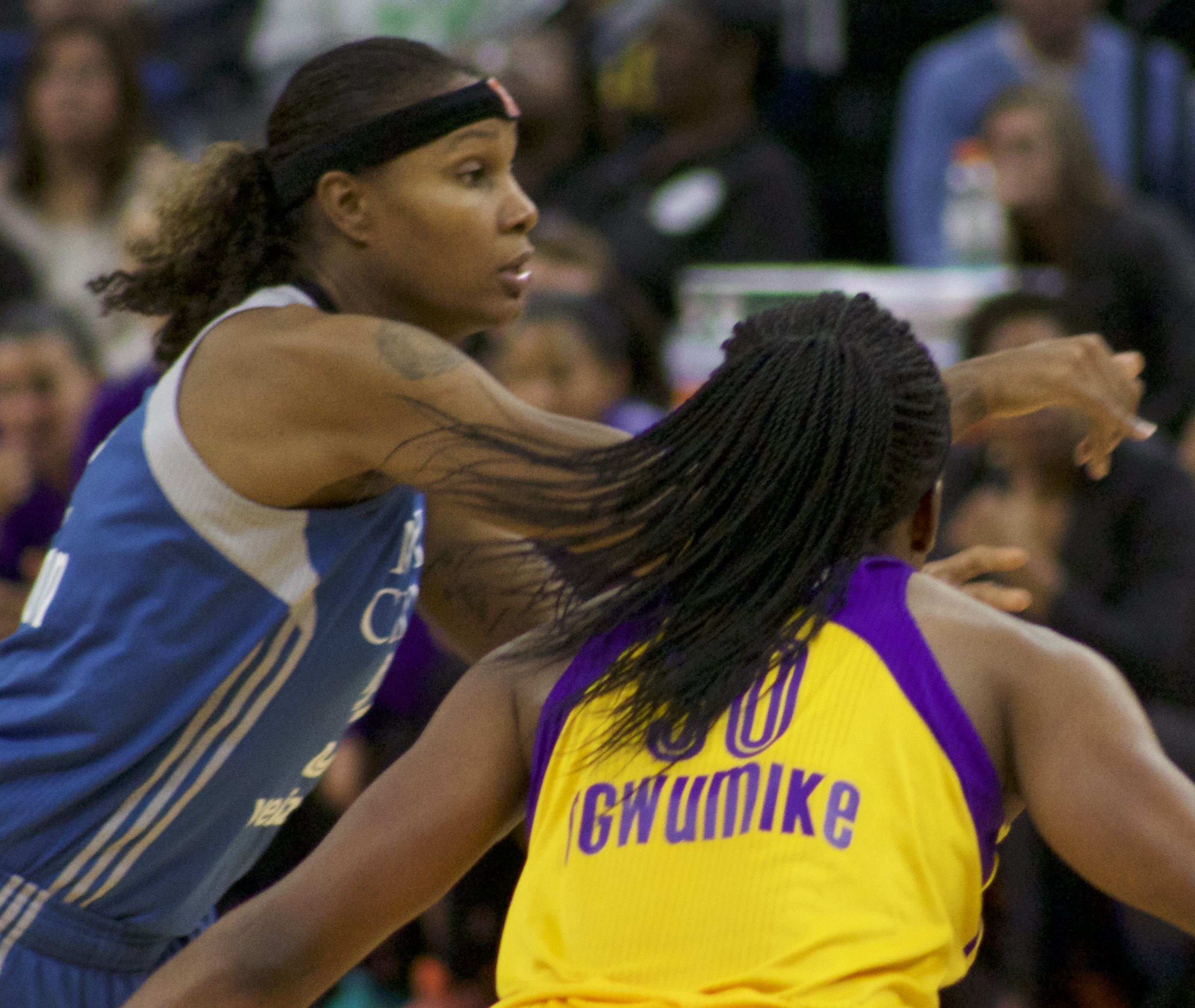 Rebekkah Brunson of the Minnesota Lynx guarded by Nneka Ogwumike of the Los Angeles Sparks